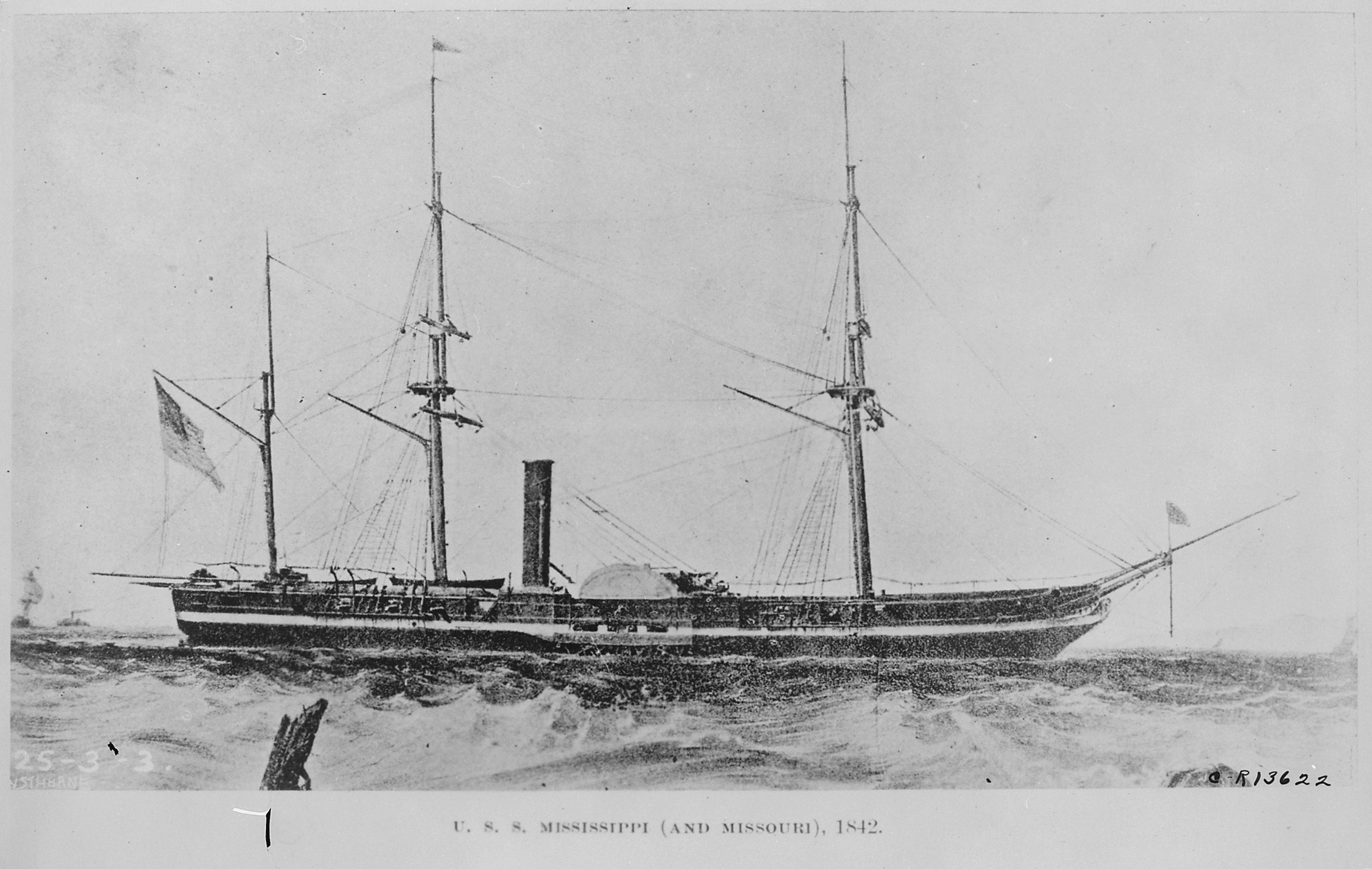 Scope and content: The Mississippi, a 10-gun side-wheel steamer, was commissioned in 1841. General notes: Artwork.